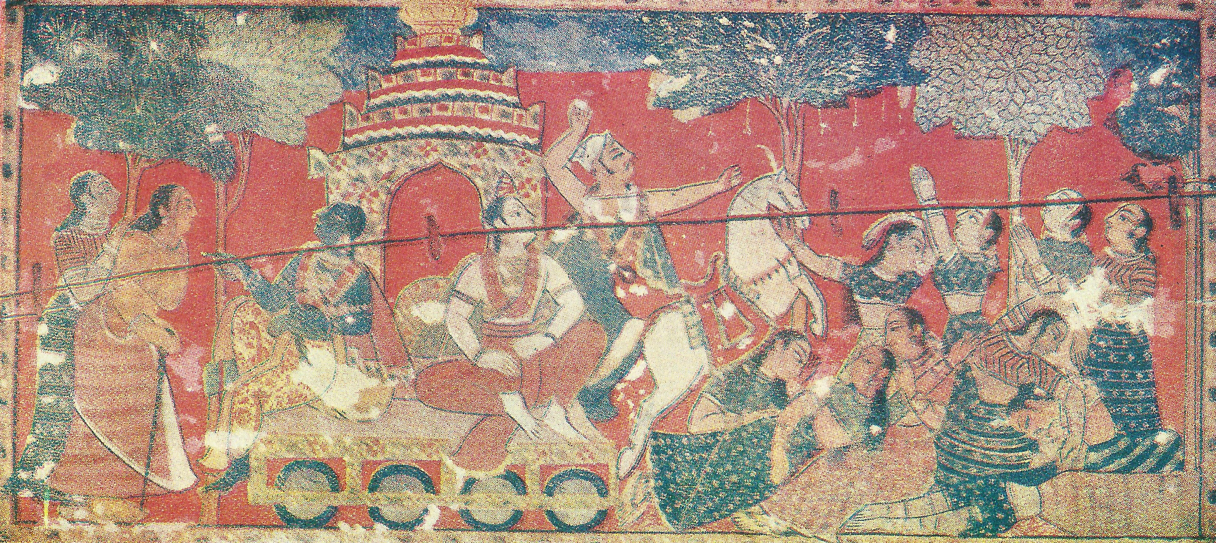 Image of a 17th century painting published in Brihat Banga Volume I by Dey's Publishing in 1935 Kolkata. The image has been scanned from the 2nd Reprint done on March 1999. The painting was recovered from the cover of Bengali manuscript from Birbhum district.